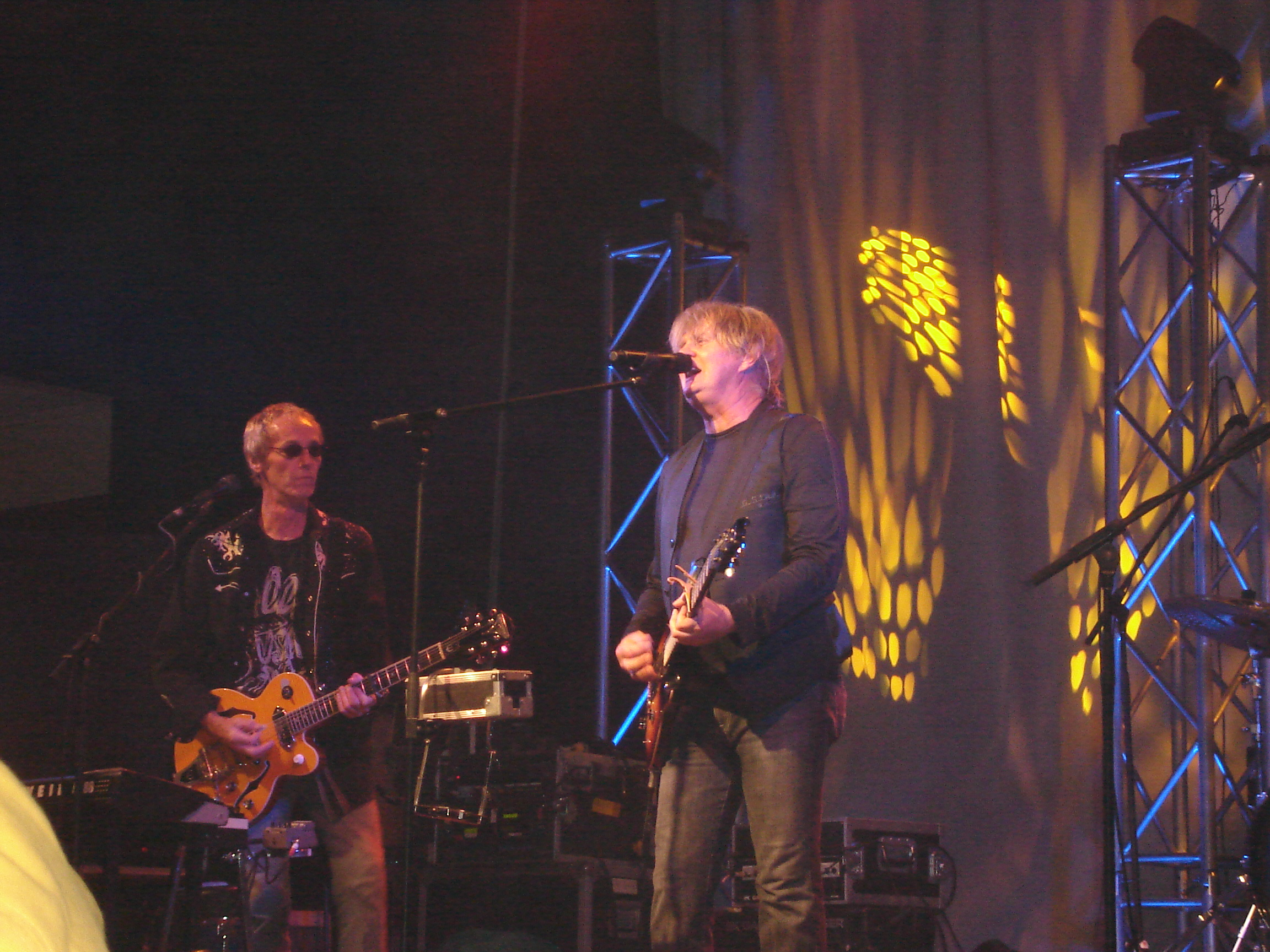 Tom Cochrane & Red Rider perform in Halifax, Nova Scotia, Canada in August 2007.